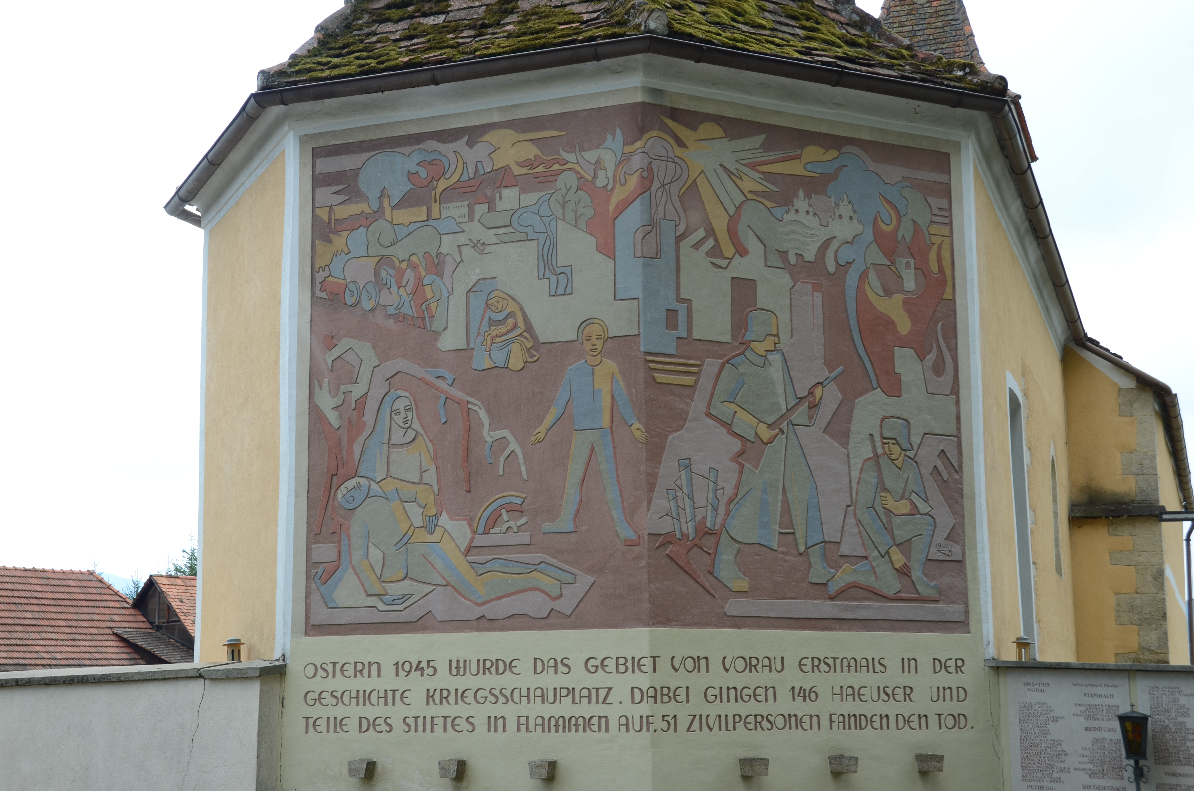 Cemetery church hl. Johannes unter den Linden in Vorau, Styria. Sgraffito by Anton Fötsch, 1954.